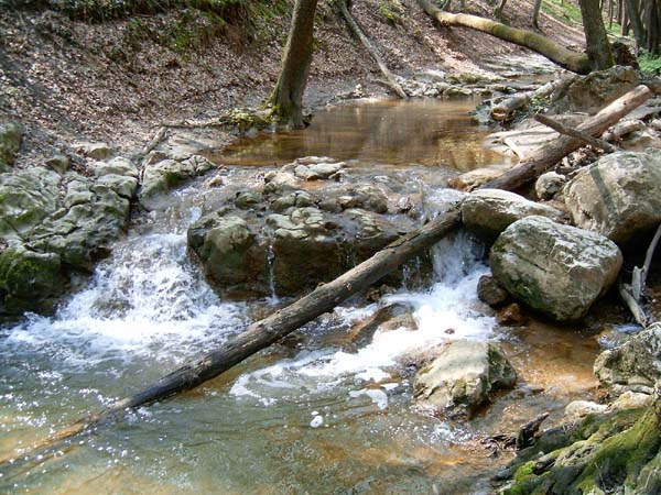 The Gaja river near Bakonynána, Hungary. 2004.04.22.